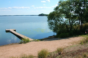 Photo by Christer Streiffert. Small beach at Fogdo island, lake Malaren, Sweden.